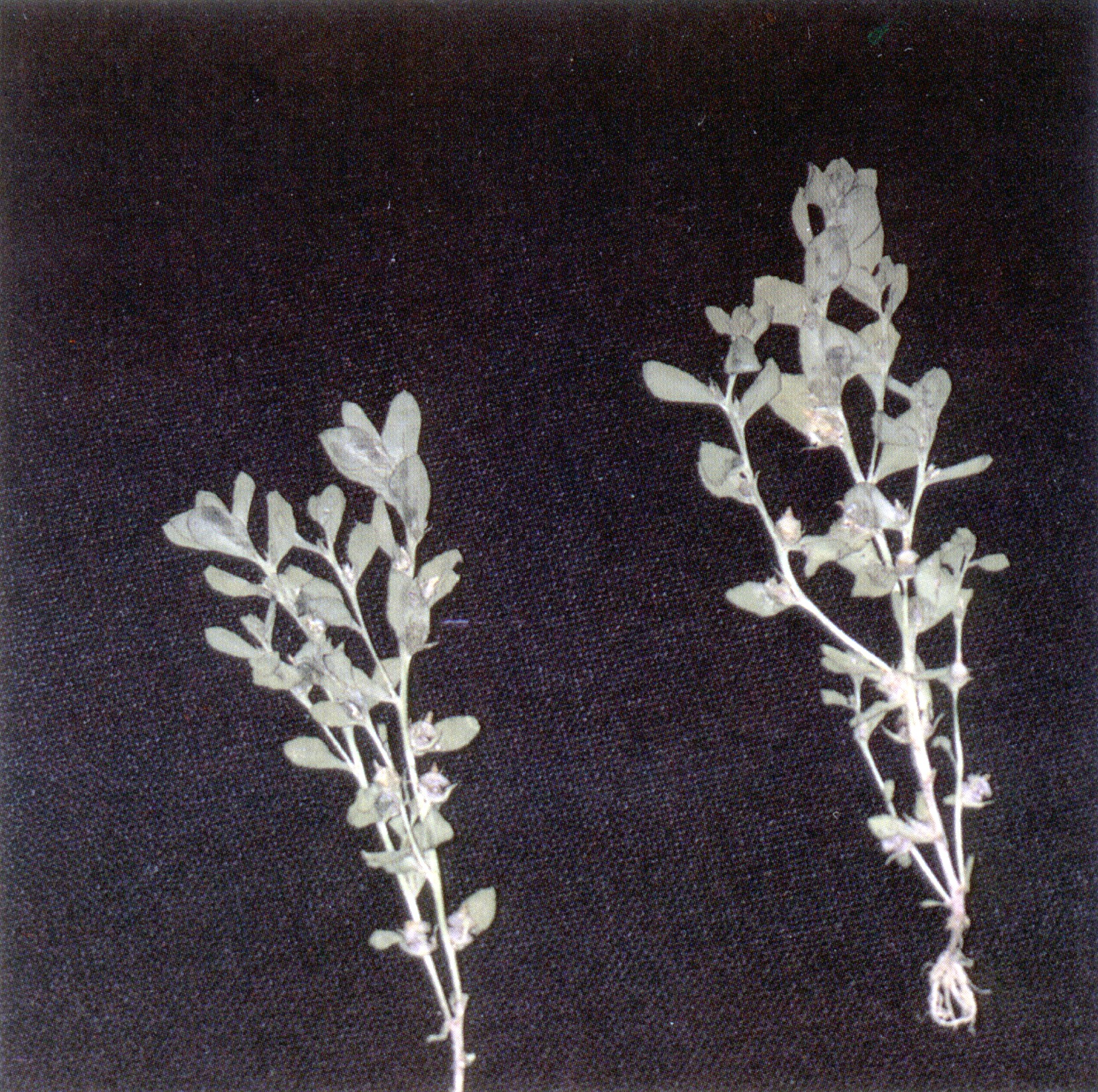 Anagallis minima